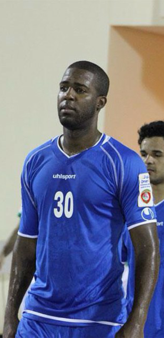 Vinícius da Silva Salles at Sohar Sports Complex for a match against Al Oruba 13 September 2014 Sohar Sports Complex Photographer email id